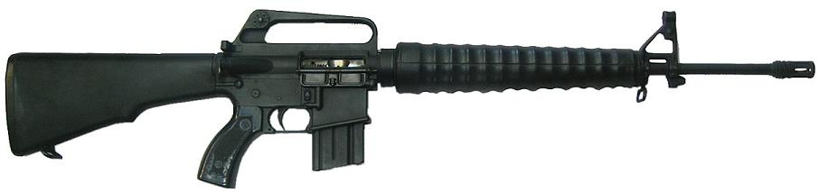 NORINCO Type CQ 5,56x45mm assault rifle - Right side